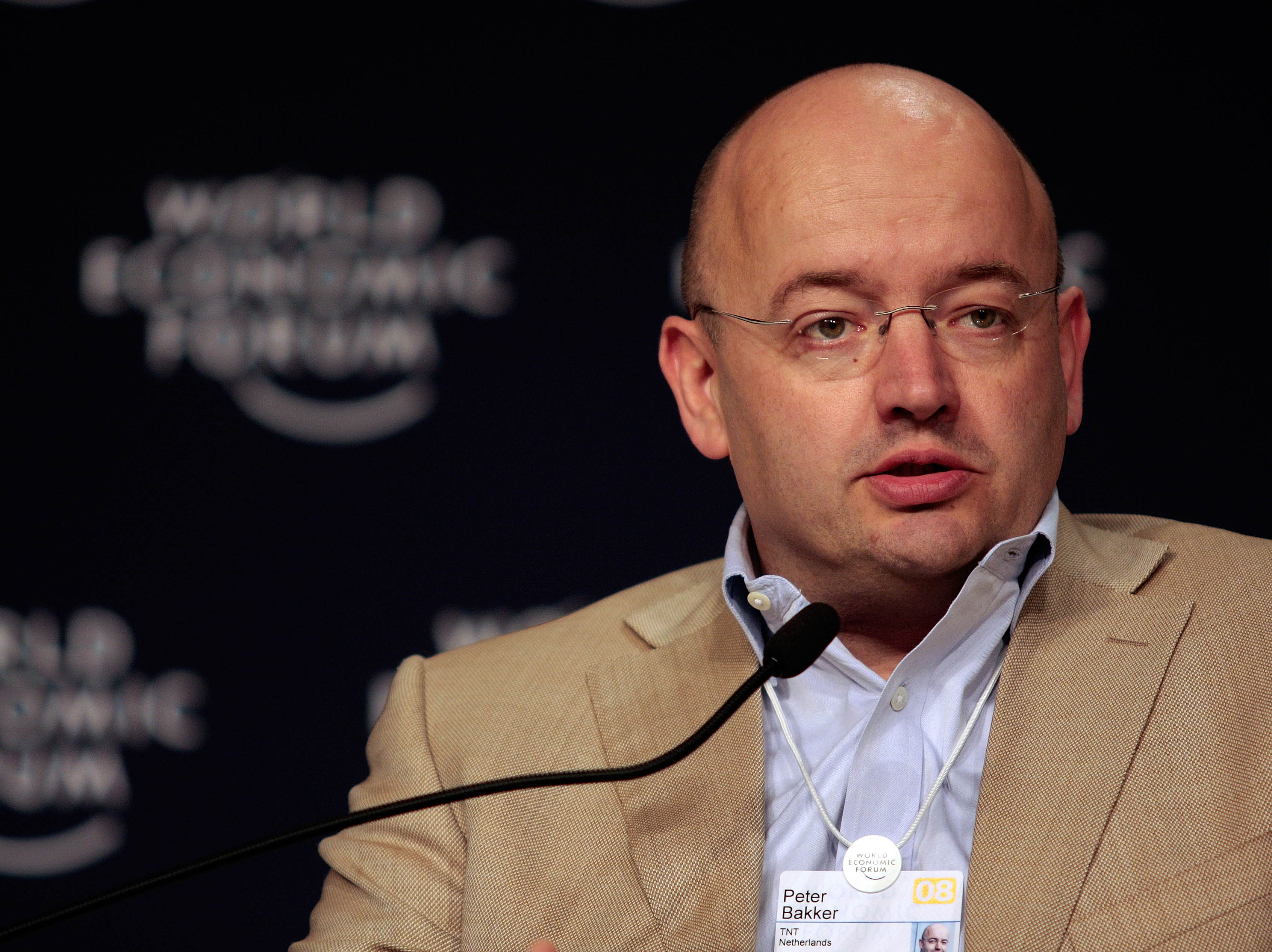 TIANJIN/CHINA, 26SEPT08 - World Economic Forum Annual Meeting of the New Champions summit mentor Peter Bakker, Chief Executive Officer of TNT NV, speaks during a press conference in Tianjin, China 26 September 2008. Copyright World Economic Forum ( by Natalie Behring